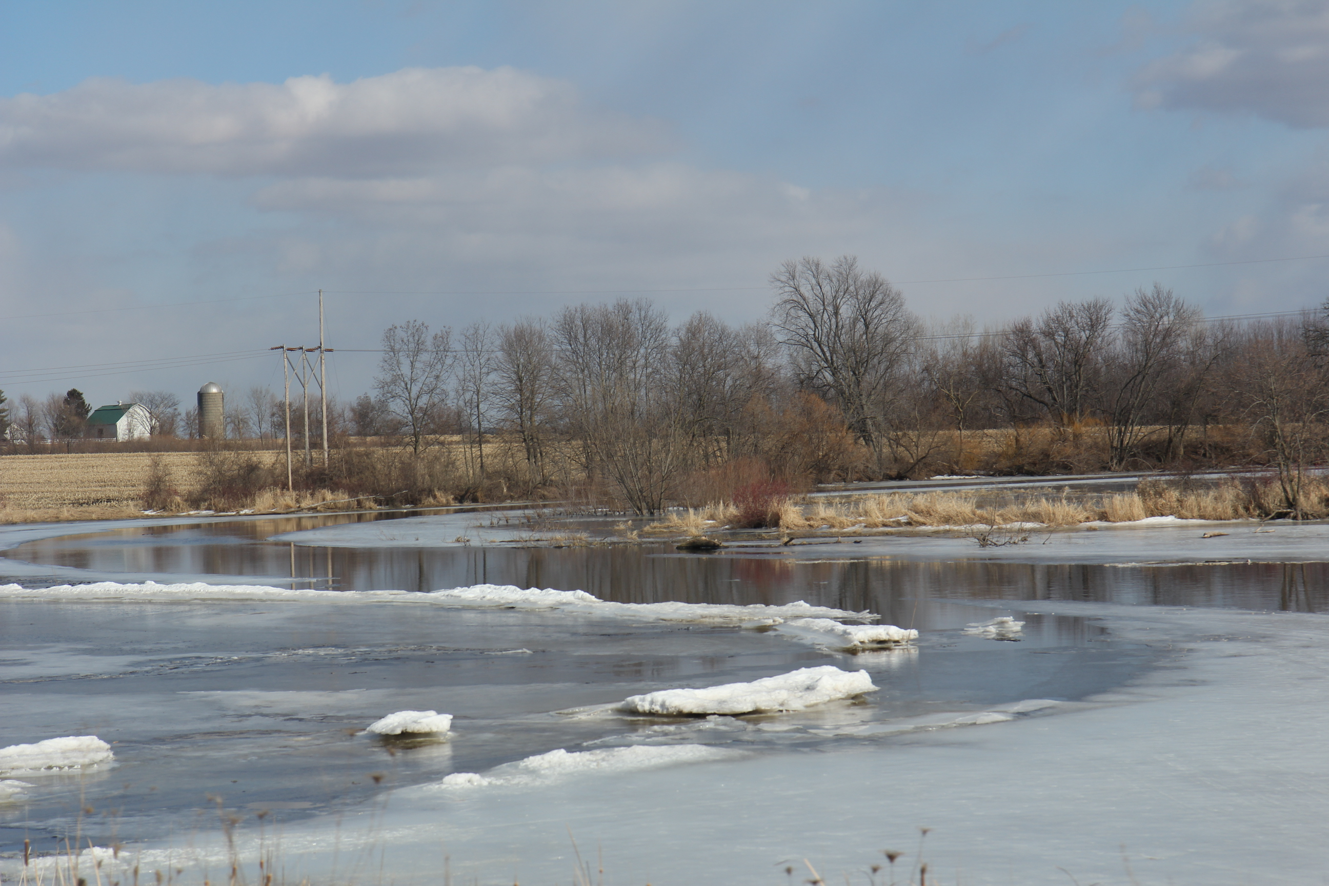 Looking east at the Crawfish River just north of Columbus, Wisconsin just into Dodge County, Wisconsin.